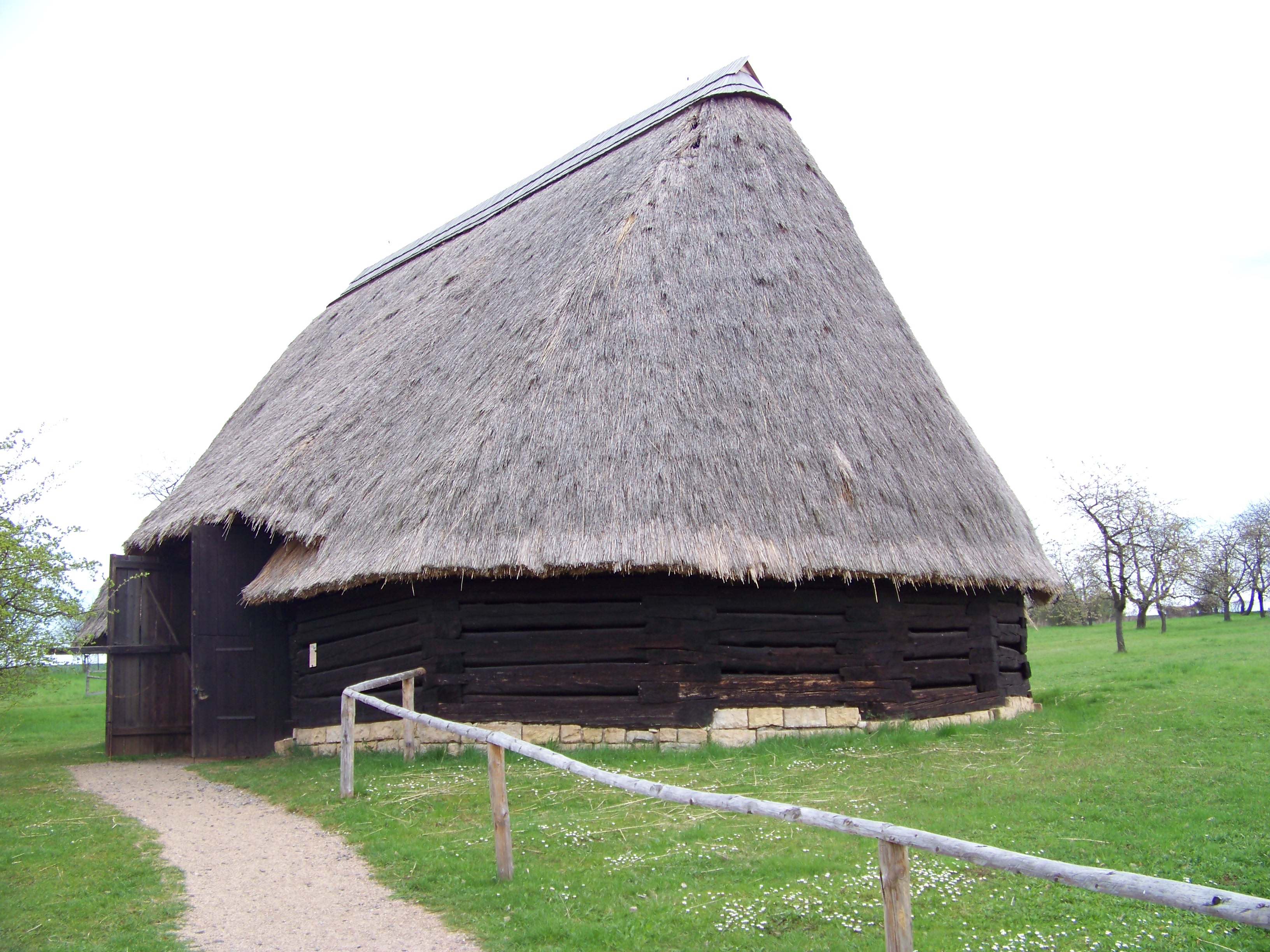 Kouřim, Kolín District, Central Bohemian Region, the Czech Republic. Open air museum.